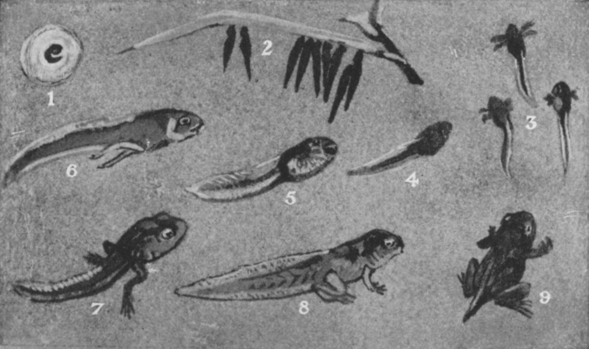 . Before hatching Newly hatched larvæ hanging on to water-weed With external gills External gills are covered over and are absorbed Limbless larva about a month old with internal gills Tadpole with hind-legs, about two months old With the fore-limbs emerging With all four legs free A young frog, about three months old, showing the almost complete absorption of the tail and the change of the tadpole mouth into a frog mouth.